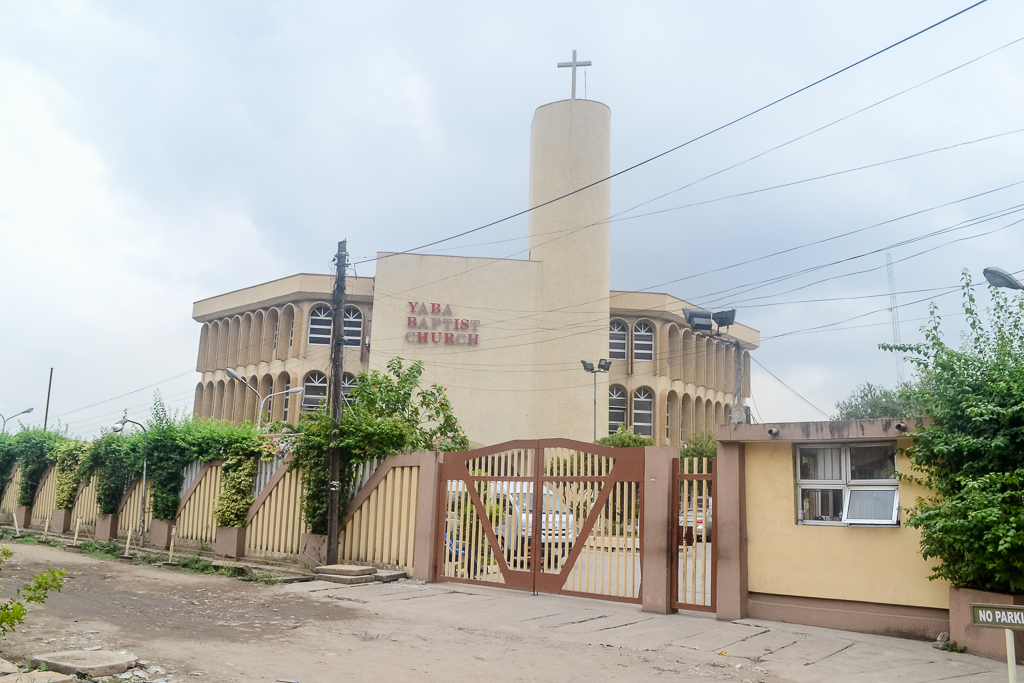 Yaba Baptist Church Lagos, Nigeria